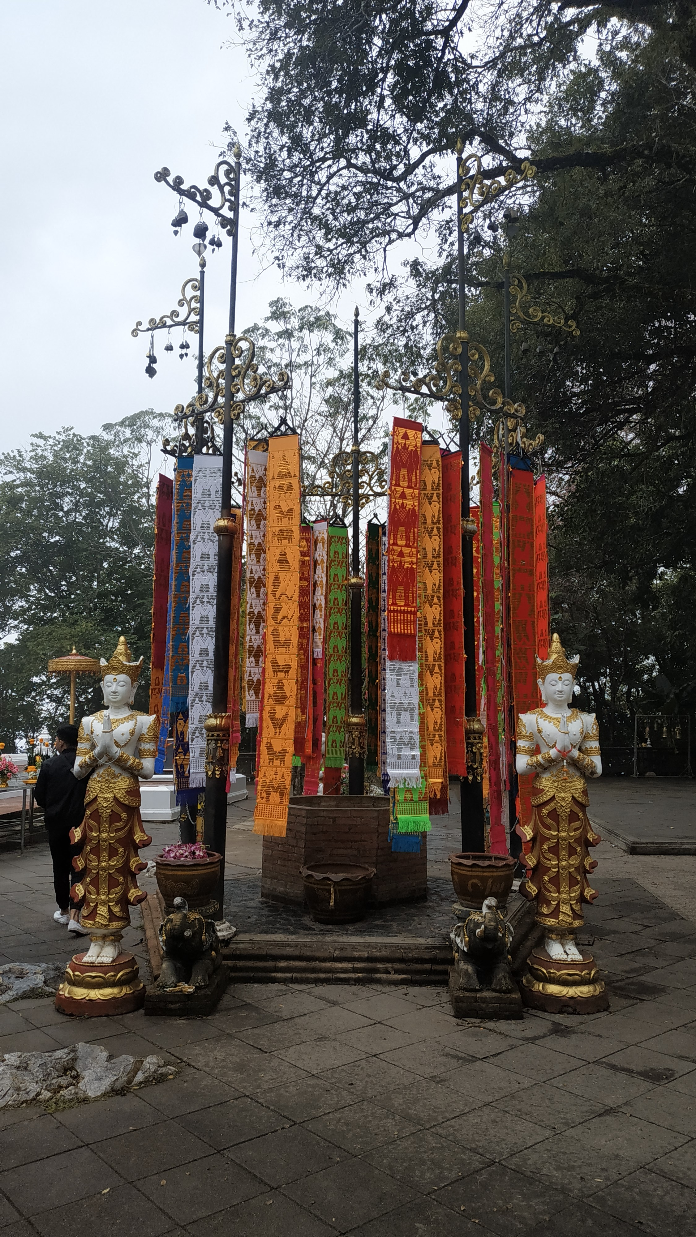 Wat Phra That Doi Tung, Mae Sai District, Chiang Rai Province, Thailand.